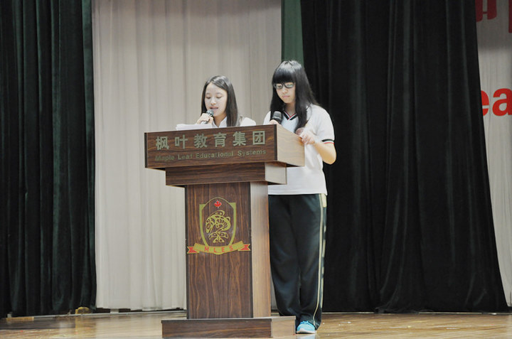 "Love, Sang by Maple Leaf"--Club Oscar Donating Ceremony